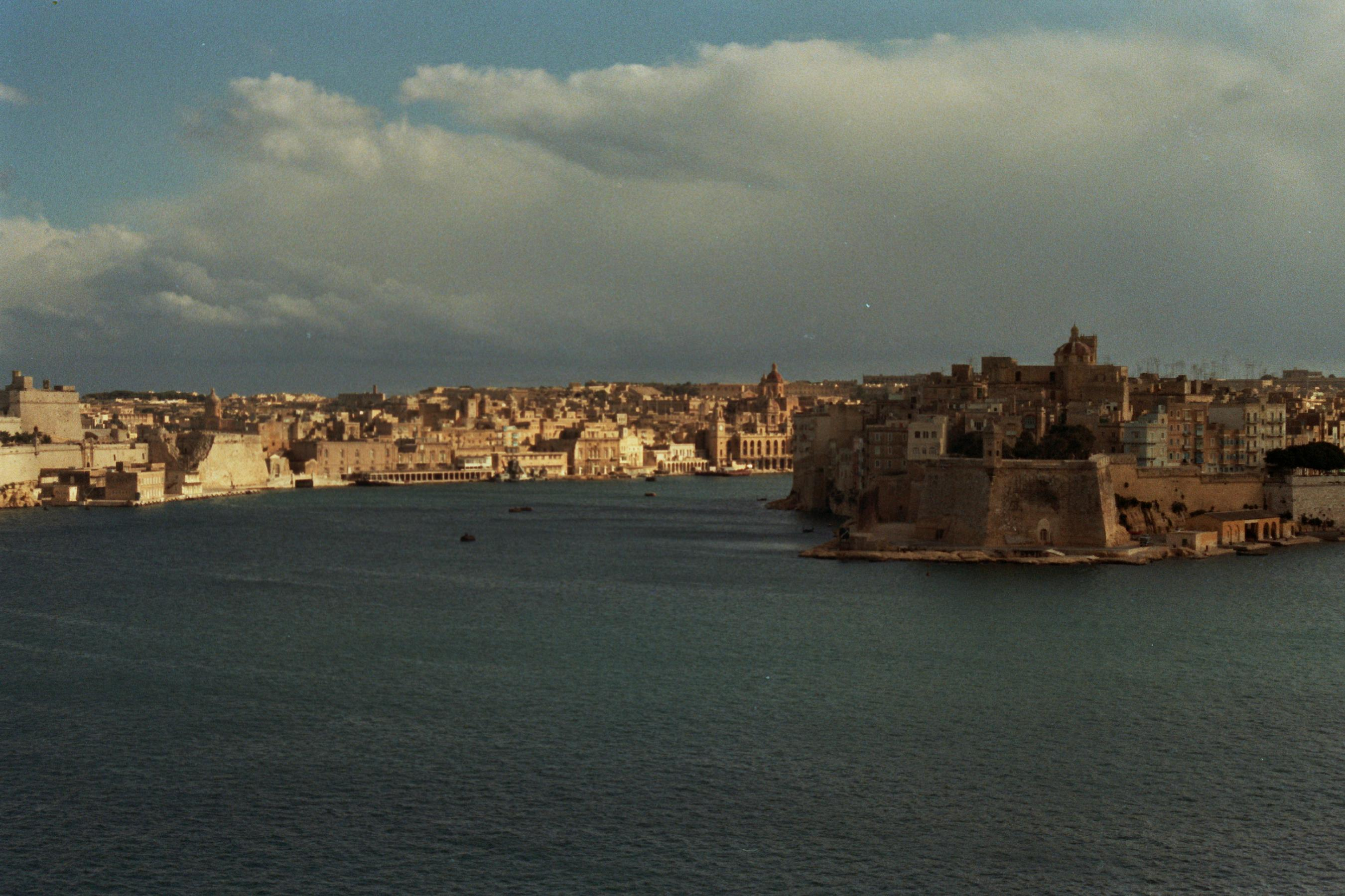 Valletta at the time of Chess Olympiad 1980, Photographer Gerhard Hund.